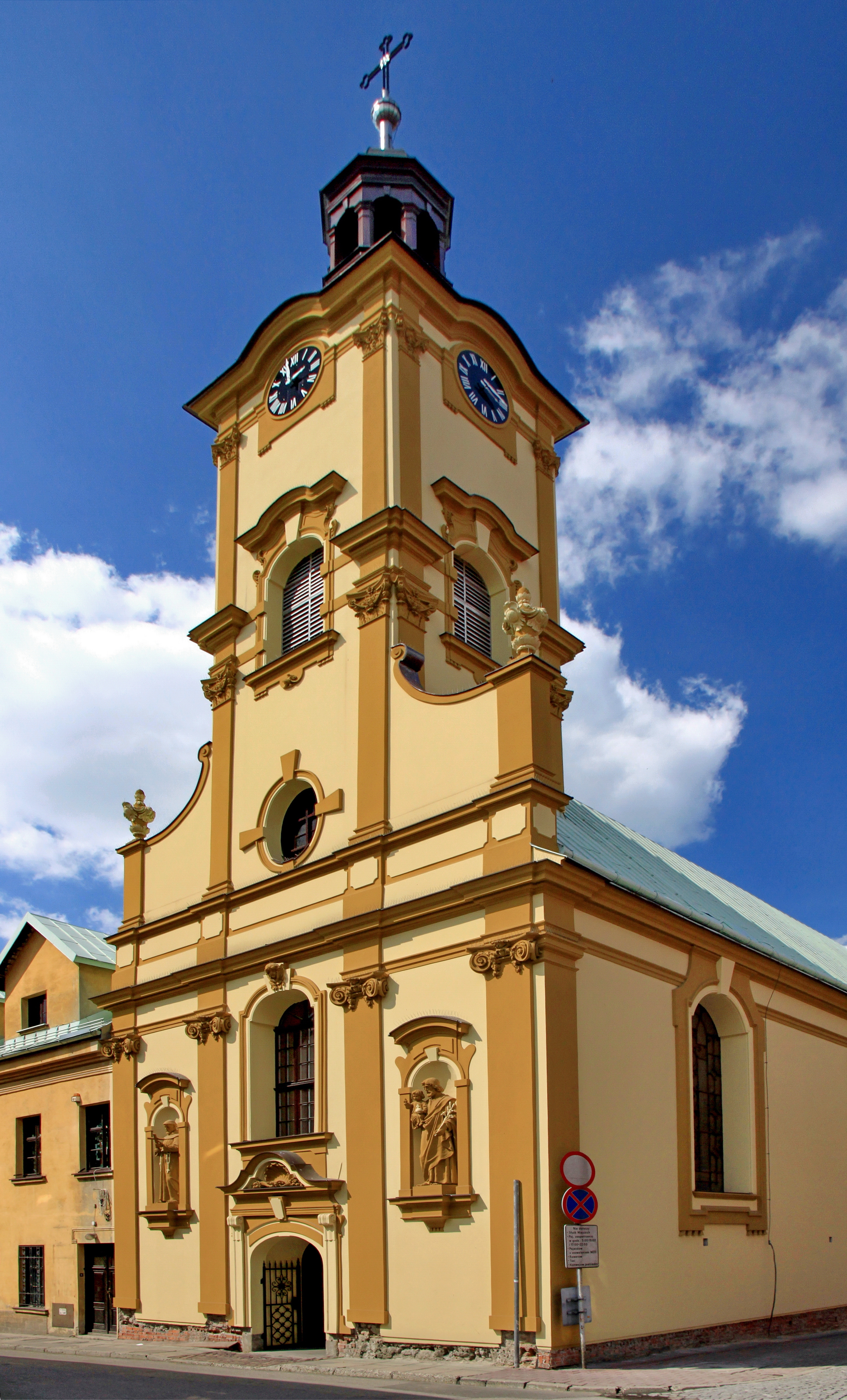 Cieszyn, church of Holy Cross, build in 1707, 1781-1791, 19th century